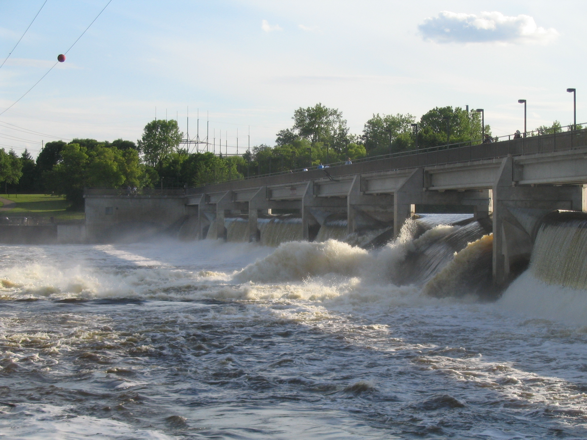 Photo was taken by me on 6/19/04. The photo was taken from the north side of the dam, facing south. The river is the Mississippi River.